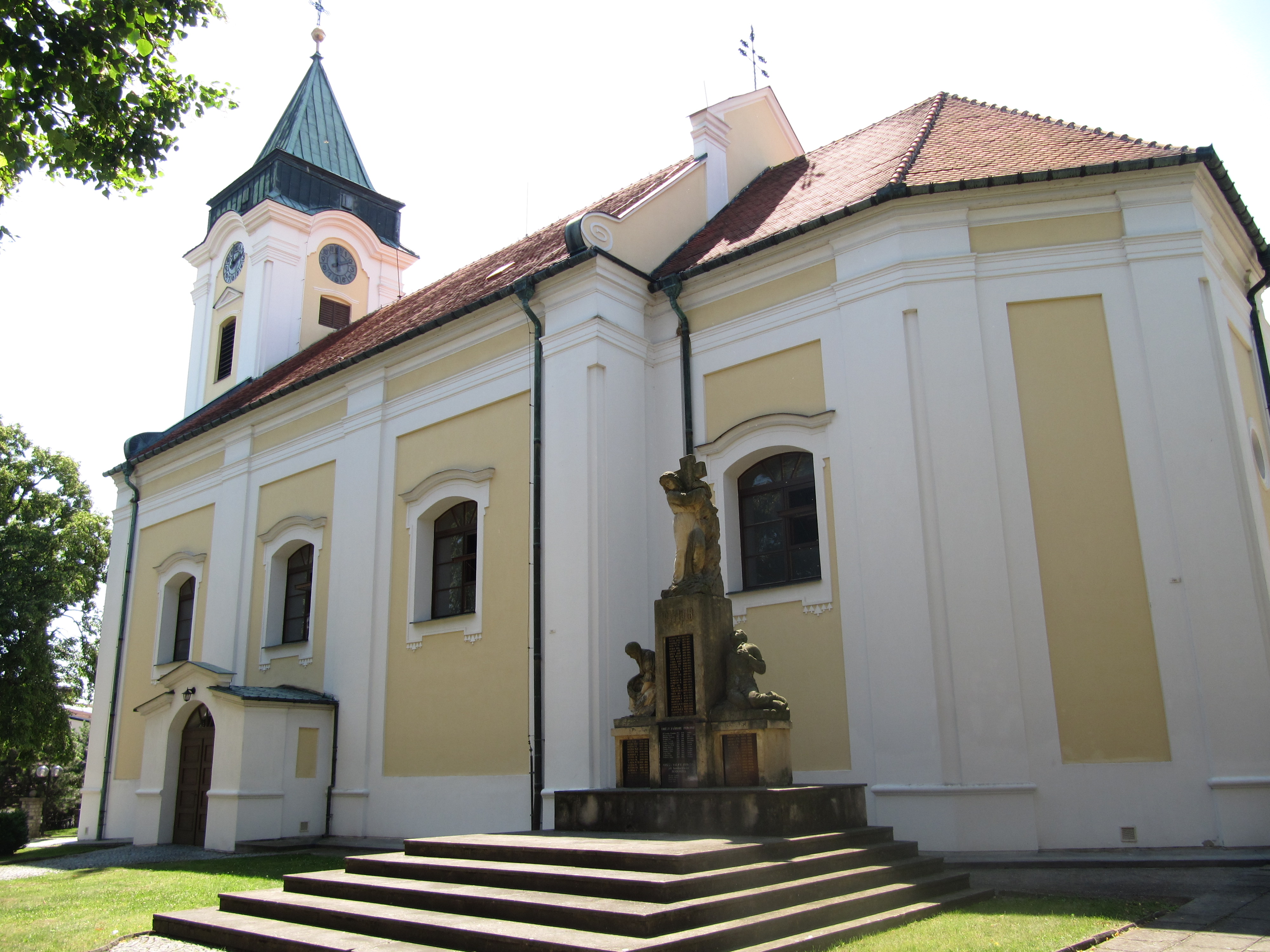 Dolní Bojanovice in Hodonín District, Czech Republic. Baroque Church of St. Wenceslas and monument to victims of First World War.